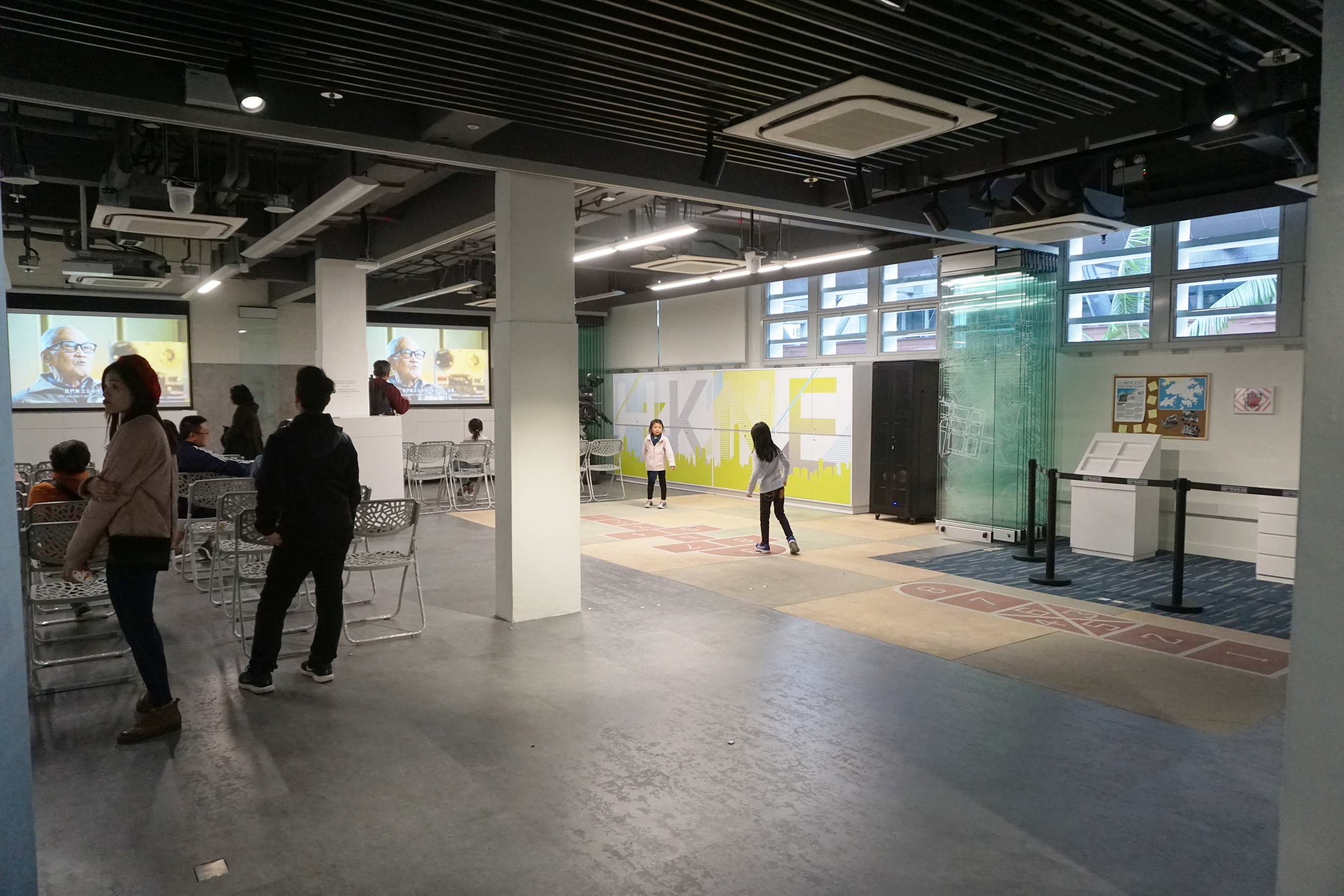 Hong Kong News-Expo in Central, Hong Kong.